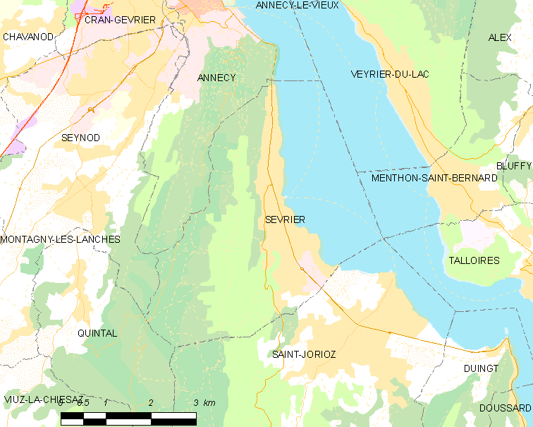 Map of French municipality Sévrier